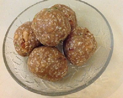 Very tasty and healthy Ladoo recipe made from til, gud and desi ghee is very good in winters. it is very famous very famous Makar Sankranti recipe.